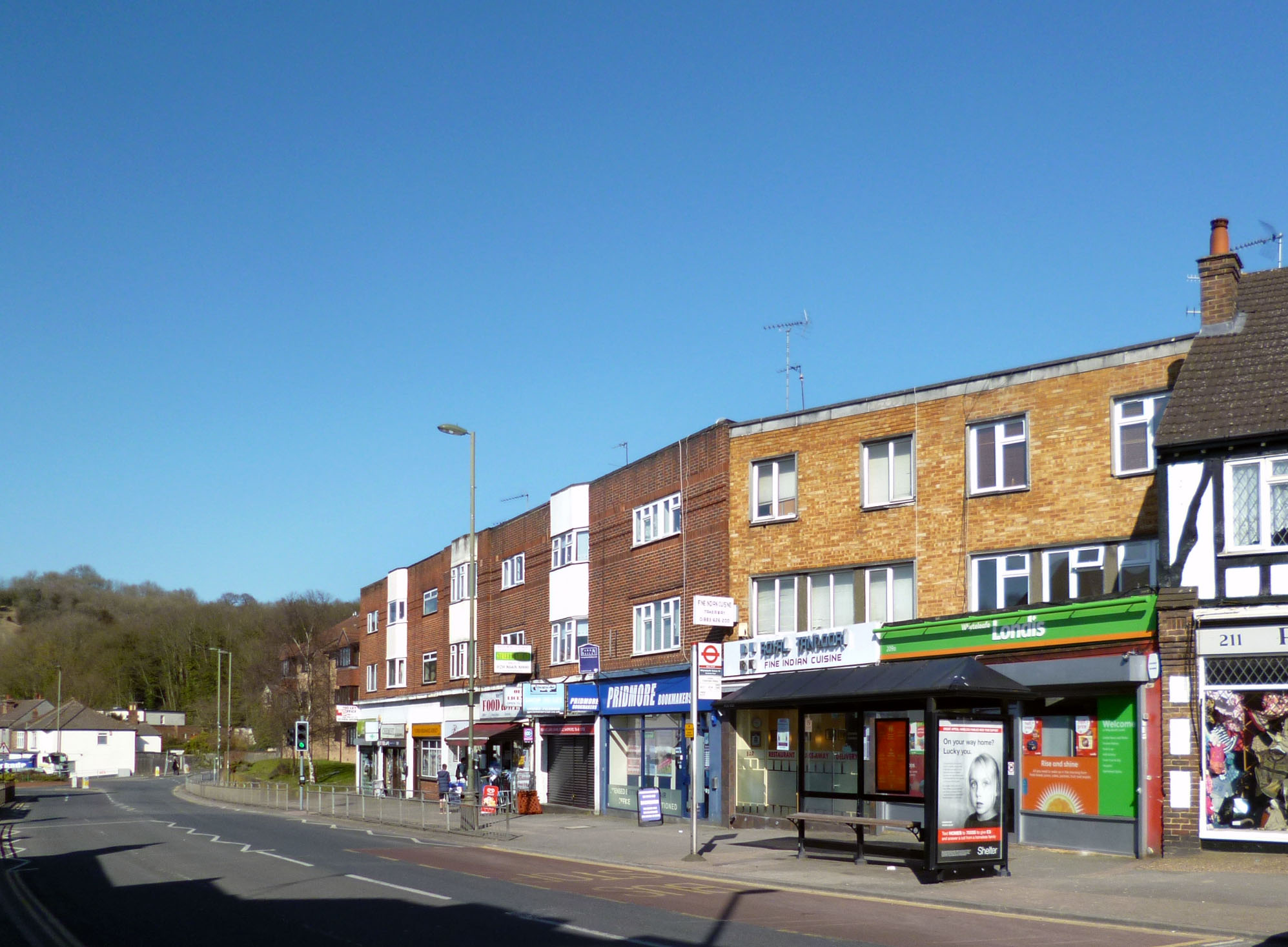 Bus Stop by the Curry House